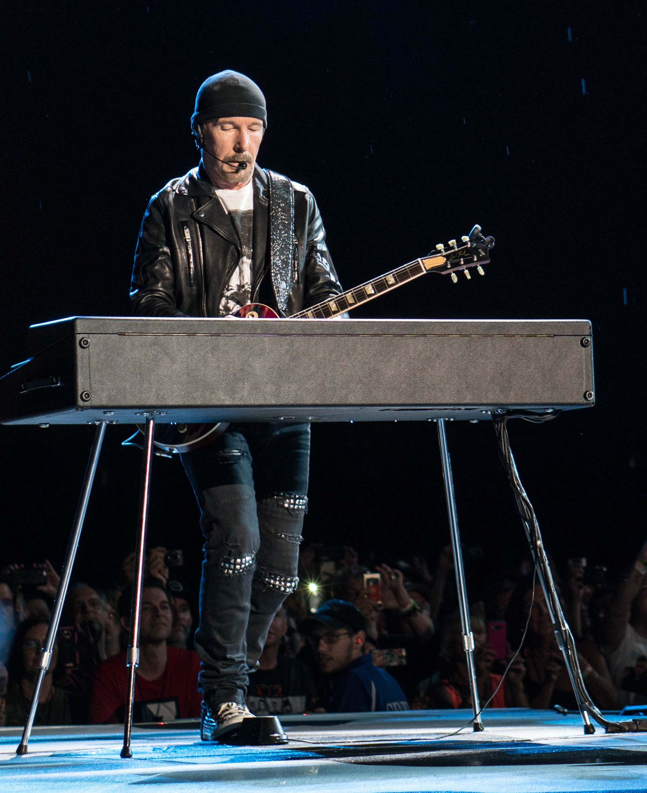 Taken on June 14, 2017 at the U2 concert in the Raymond James Stadium in Tampa, FL.